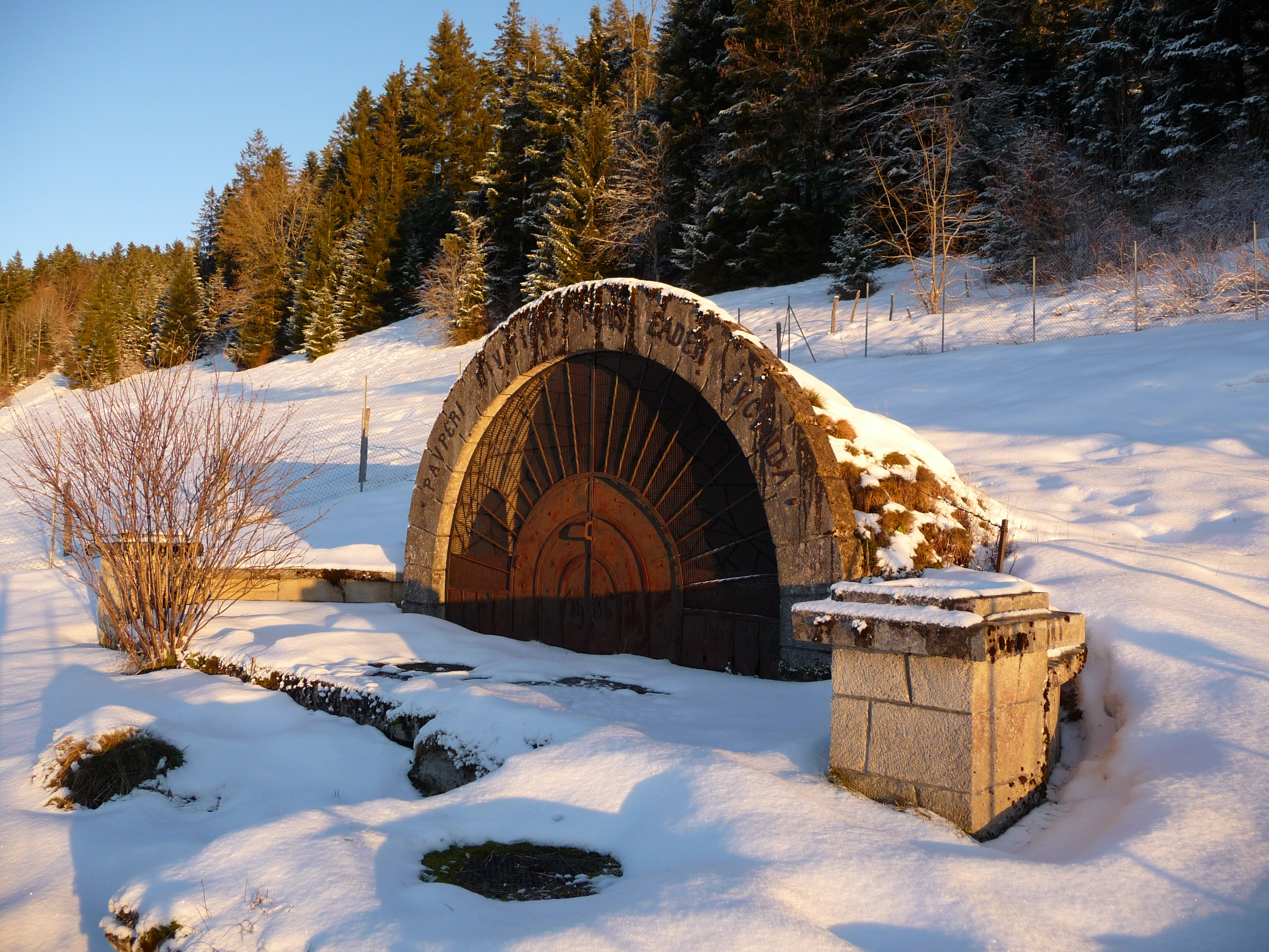 Source of fresh water coming from the montains. This water feed all the village of Malbuisson